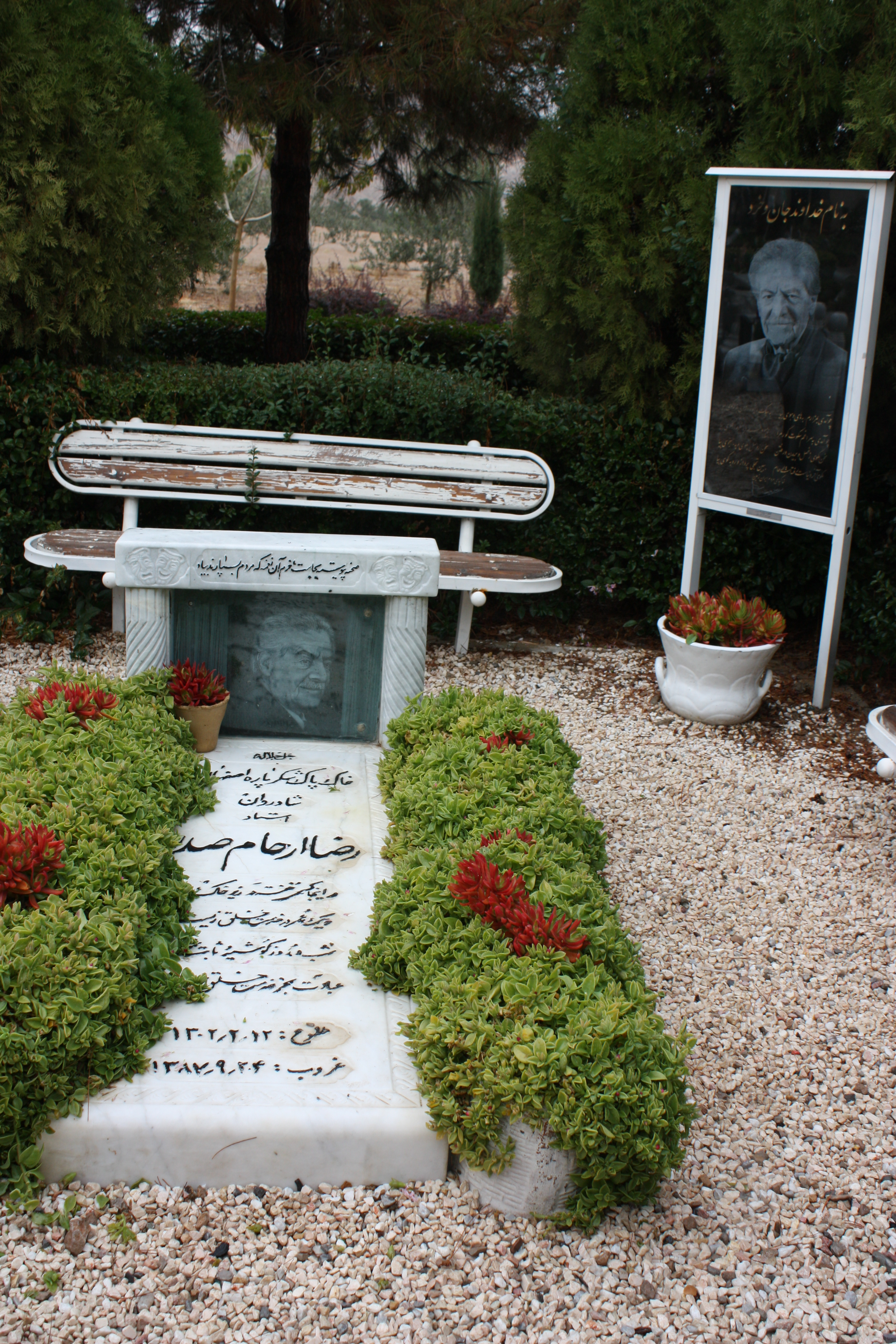 Reza Arhamsadr tomb